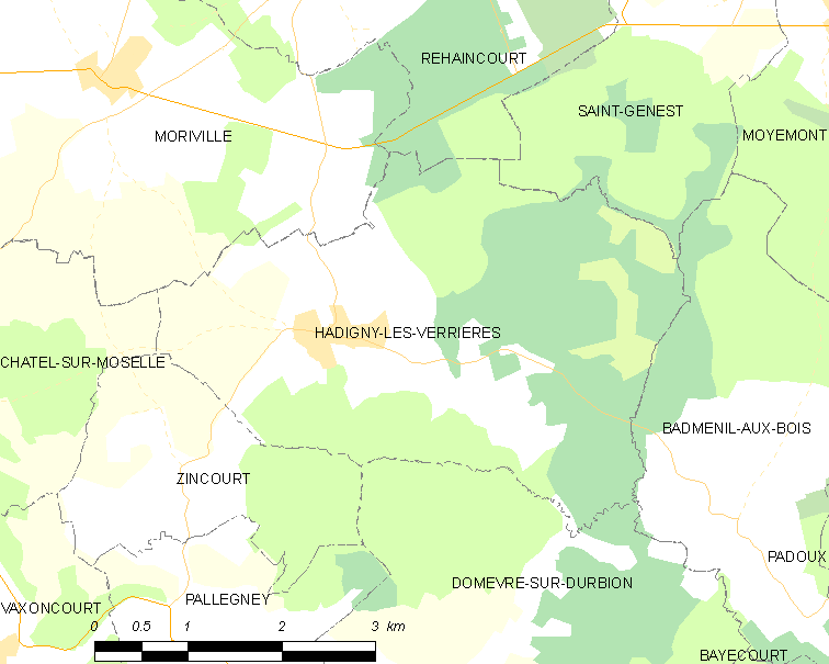 Map of French municipality Hadigny-les-Verrières